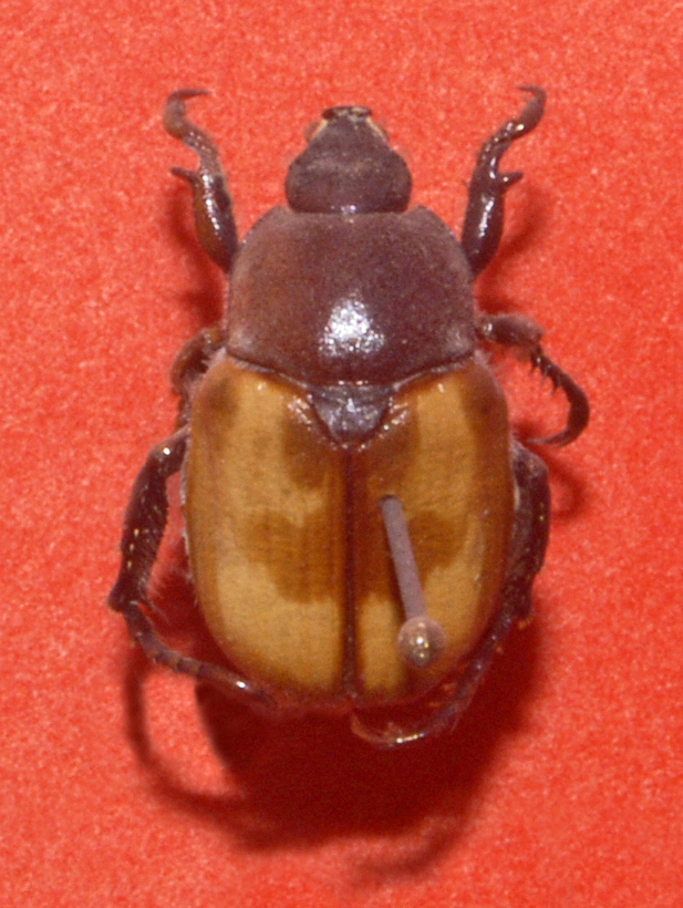 Anisoplia agricola. Museum specimen